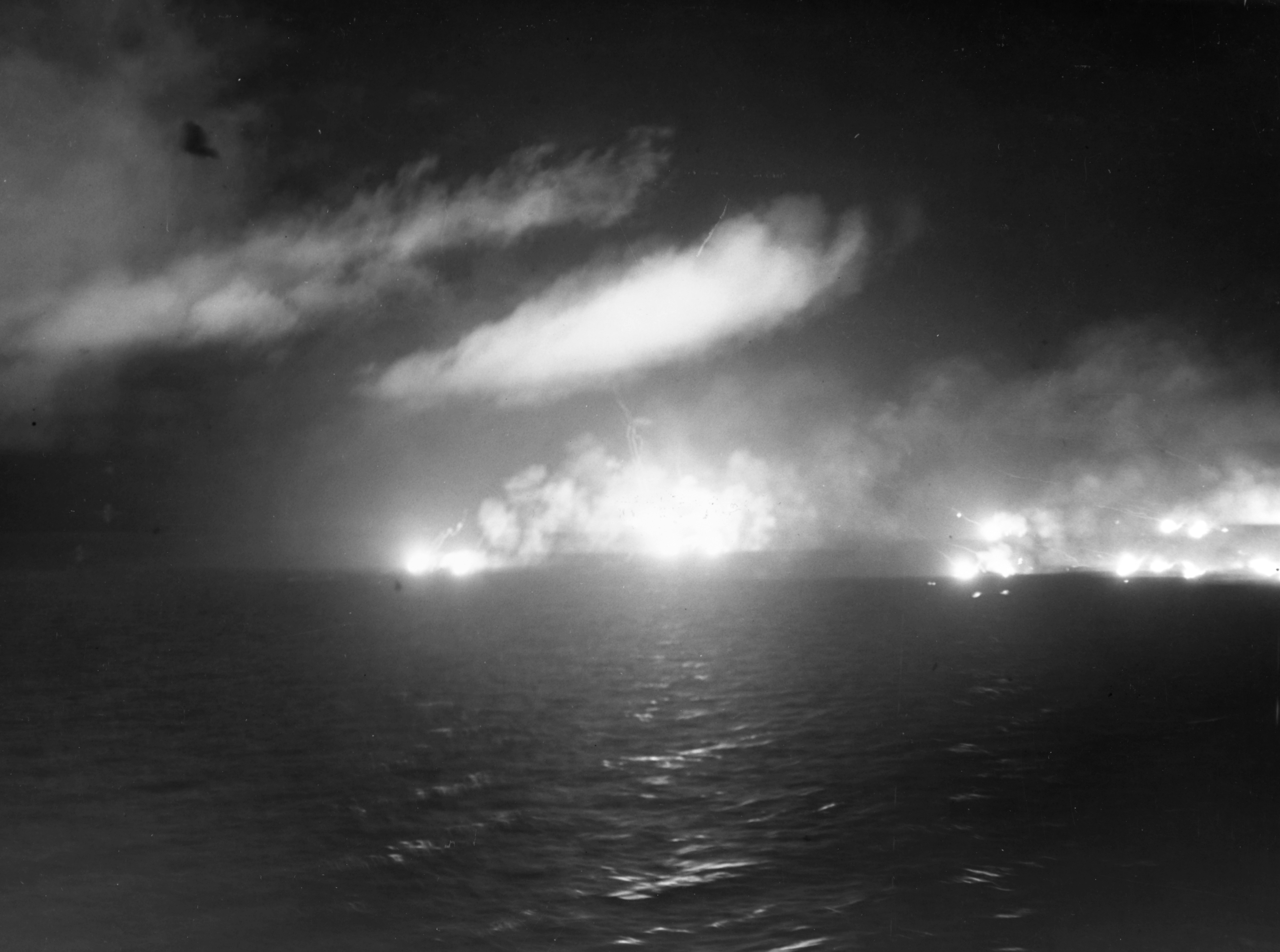 U.S. cruisers firing on Japanese ships during the Battle of Surigao Strait, 25 October 1944: USS Louisville (CA-28), USS Portland (CA-33), USS Minneapolis (CA-36), USS Denver (CL-58), and USS Columbia (CL-56).